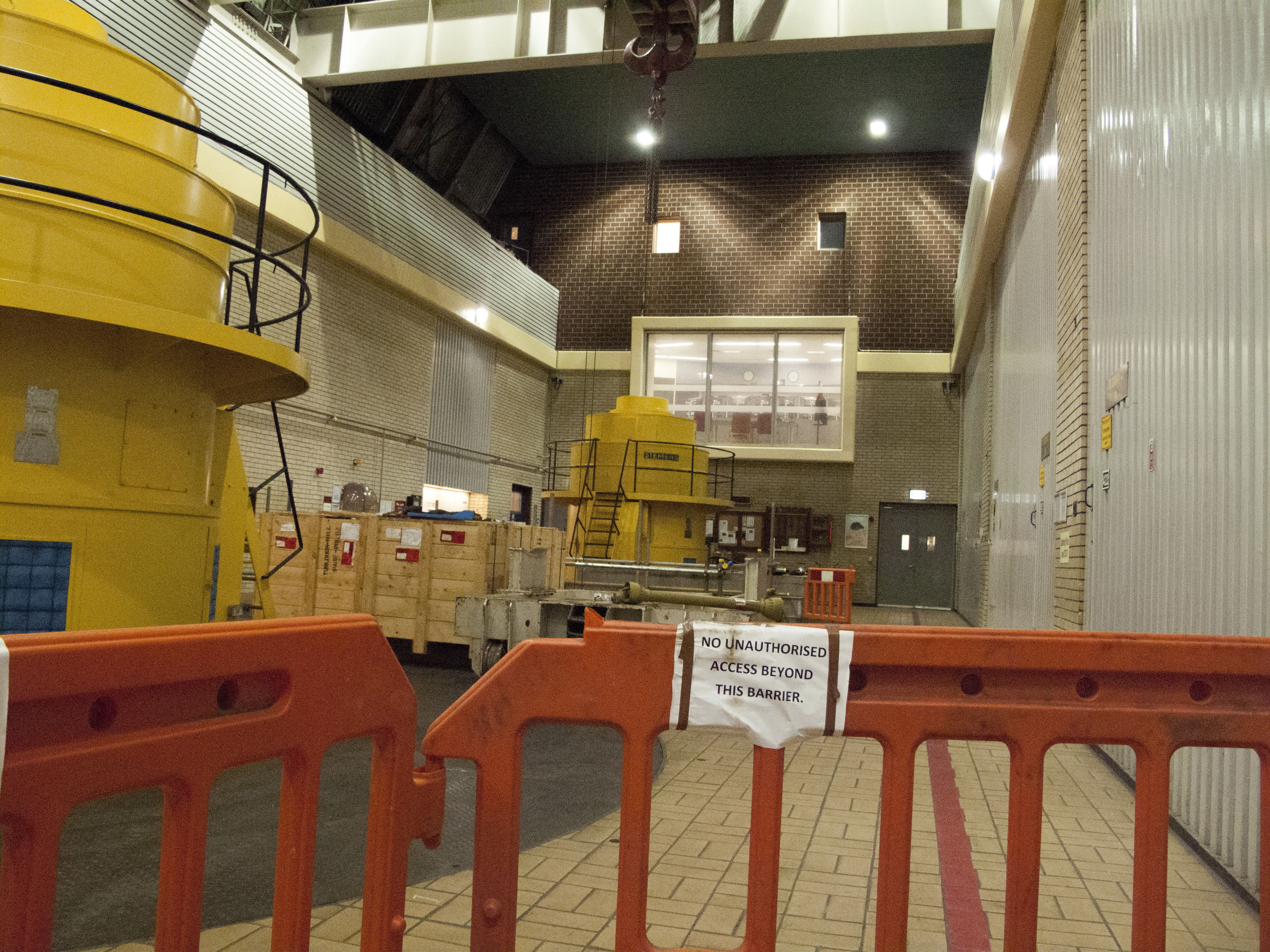 October 2014